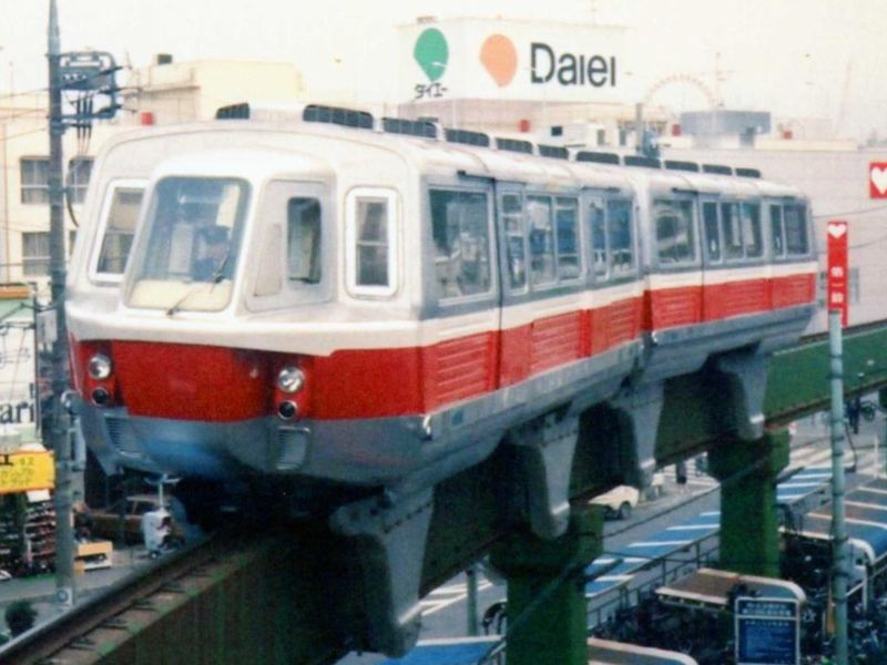 Odakyū Mukōgaoka-Yūen Monorail, now closed. Photograph taken by Cassiopeia sweet. Originally uploaded to Japanese Wikipedia by the photographer.